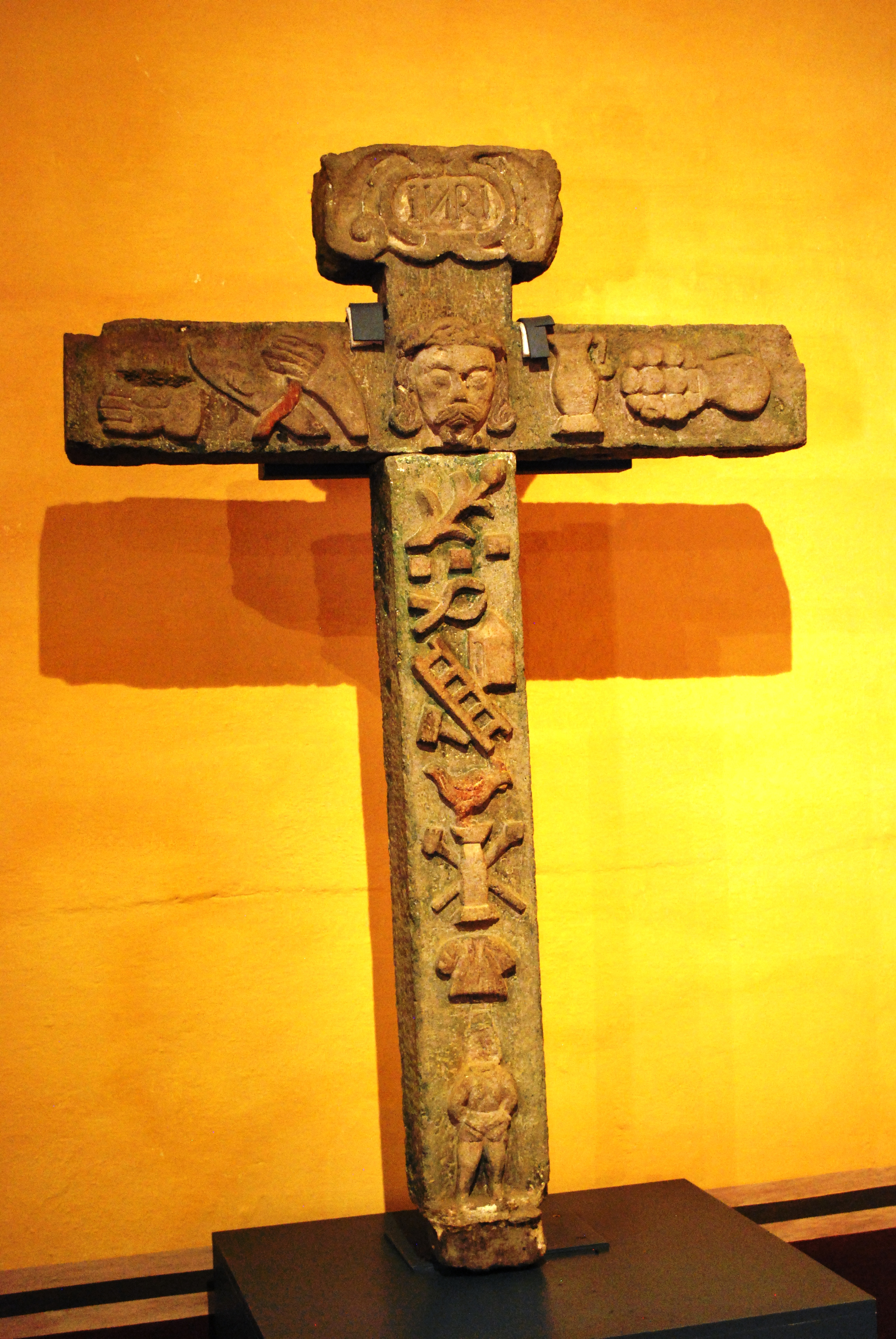 Atrium cross 16th century at the Tlaxcala Regional Museum